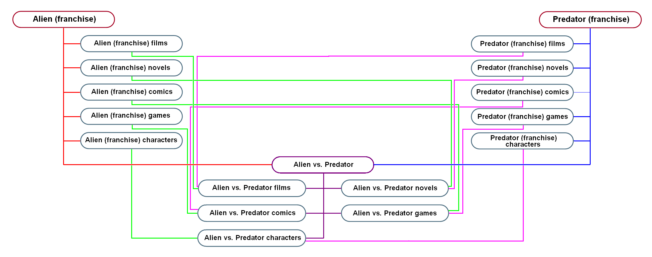 A diagram of categories intended to serve as a visual aid for WikiProject Alien at Wikipedia.